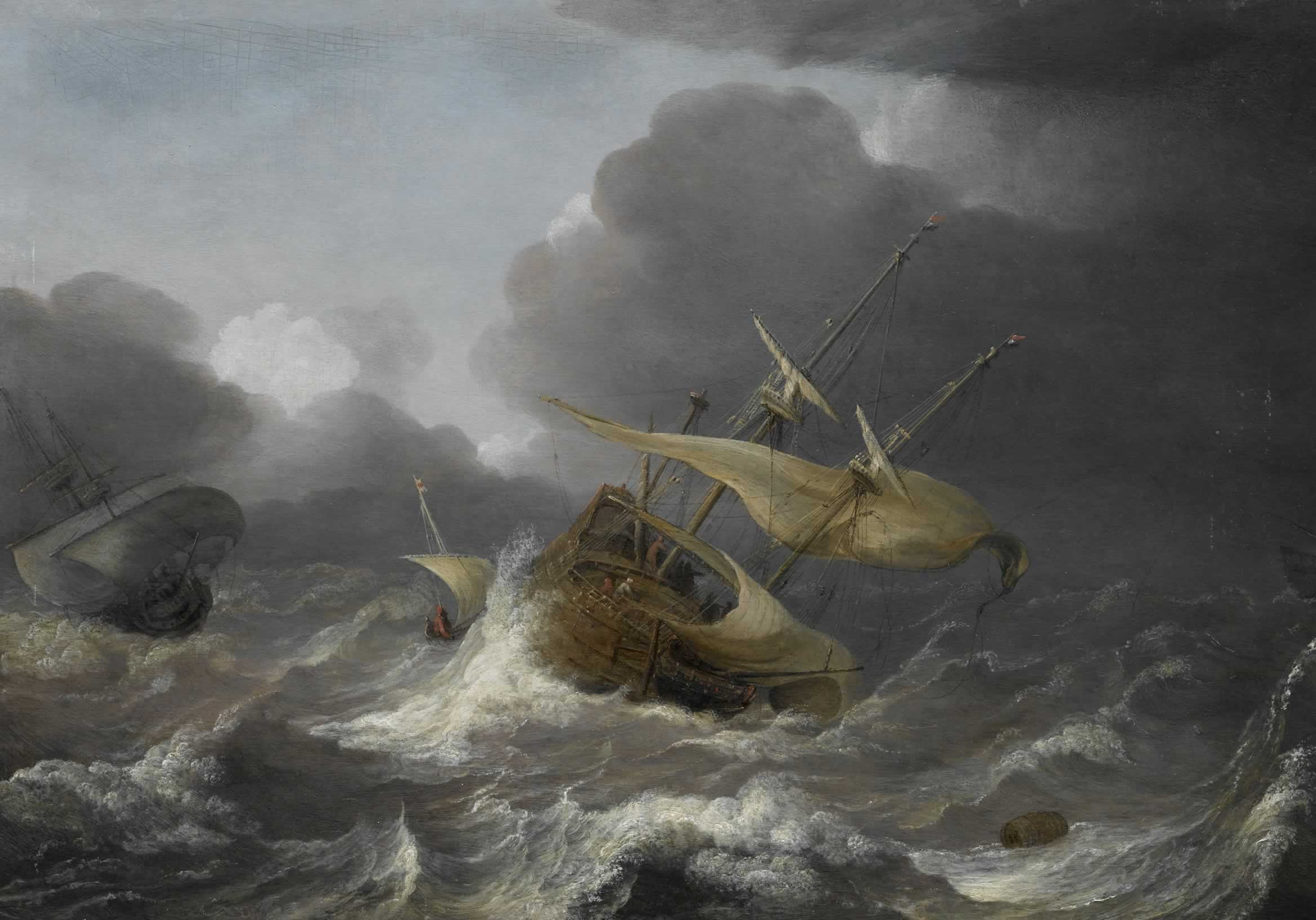 Dutch Ships in a Gale